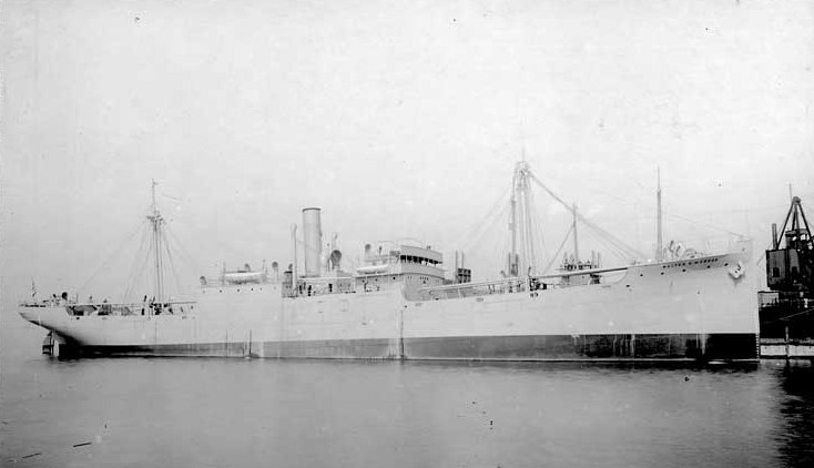 Commercial cargo ship SS Walter D. Munson, probably at the time of her completion, prior to her 1918-1919 US Navy service as USS Walter D. Munson (ID-1510).